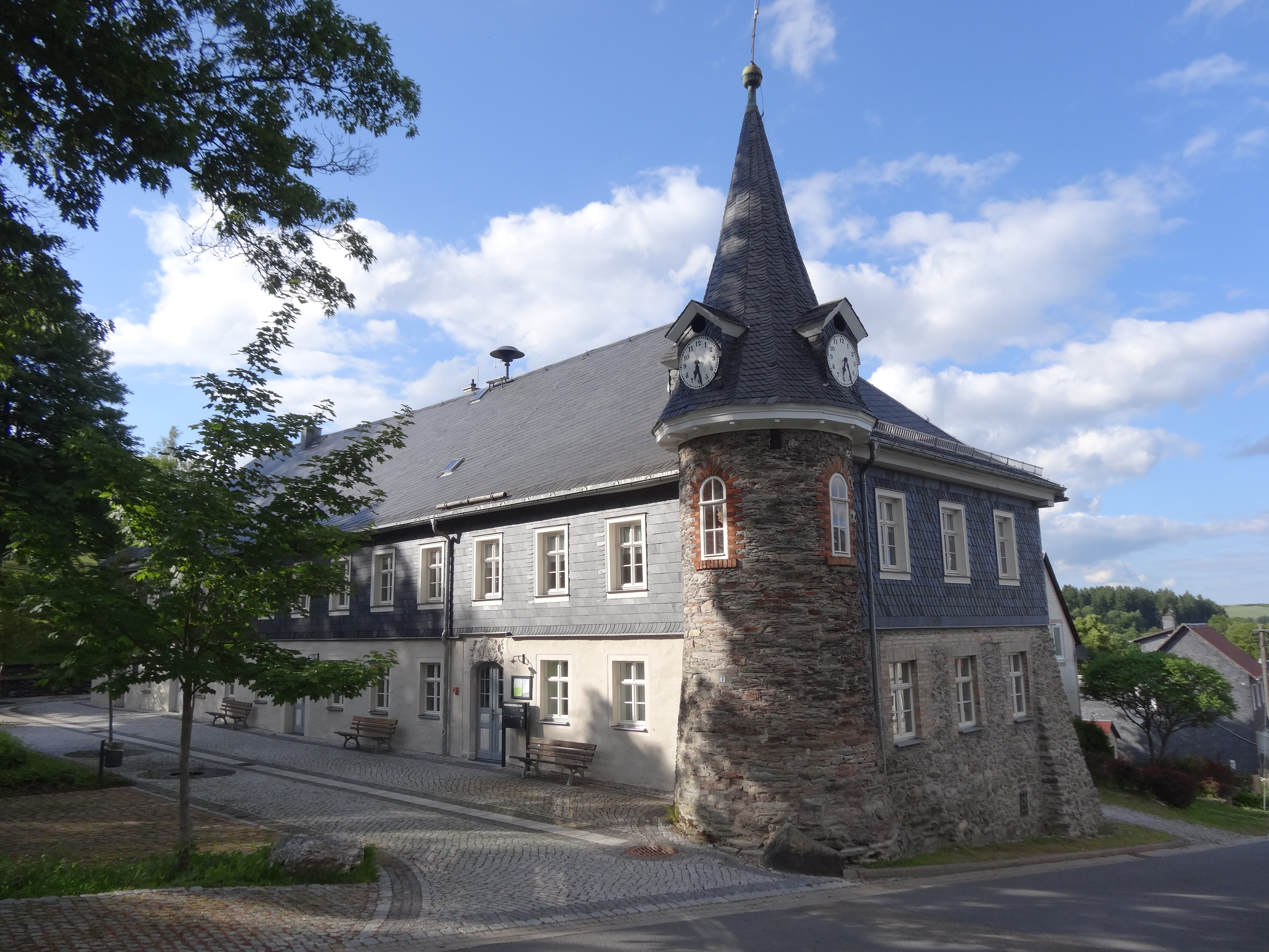 Building in Wildenspring, Thuringia, Germany (view from South)